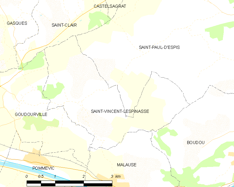 Map of French municipality Saint-Vincent-Lespinasse